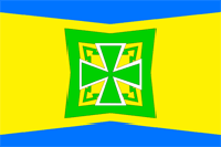 Flag of the Temizhbekskoe rural settlement, Krasnodar krai, Russia